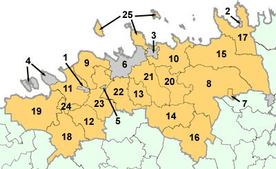 Numbered map showing municipalities of Harju County (Estonia) in 2002–2005. Urban municipalities: Keila Loksa Maardu Paldiski Saue Tallinn Rural municipalities: 7. Aegviidu 8. Anija 9. Harku 10. Jõelähtme 11. Keila 12. Kernu 13. Kiili 14. Kose 15. Kuusalu 16. Kõue 17. Loksa 18. Nissi 19. Padise 20. Raasiku 21. Rae 22. Saku 23. Saue 24. Vasalemma 25. Viimsi